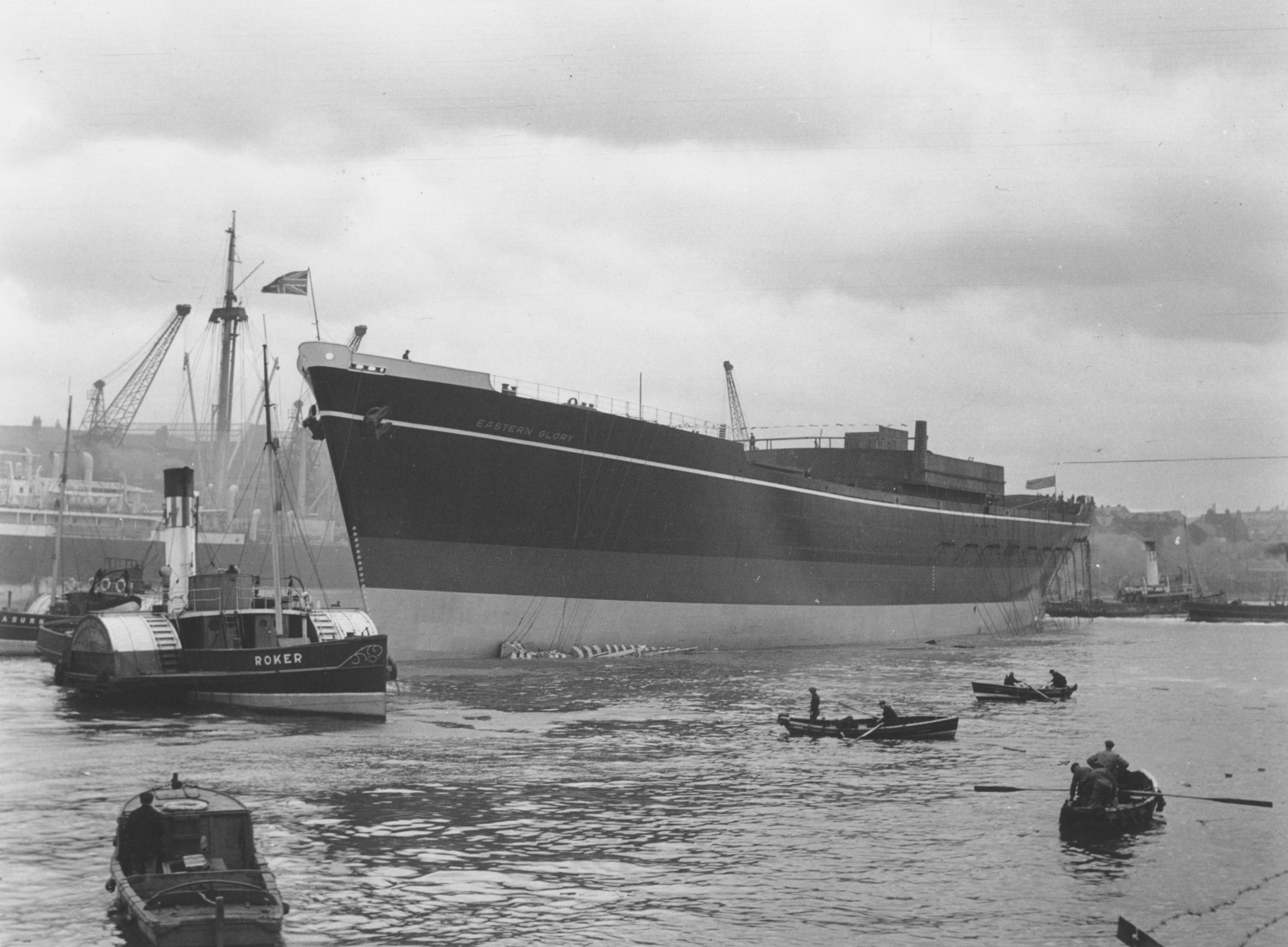 The cargo ship ‘Eastern Glory’ waiting to be towed to the fitting out quay after launch from the North Sands shipyard of J.L. Thompson & Sons Ltd, 12 April 1949 (TWAM ref. DS.JLT/4/PH/1/660/4/1). Tyne & Wear Archives is proud to present a selection of images from its Sunderland shipbuilding collections. The set has been produced to celebrate Sunderland History Fair on 7 June 2014. It's a reminder of the thousands of vessels launched on the River Wear and the many outstanding achievements of Sunderland’s shipyards and their workers. These photographs reflect Sunderland’s history of innovation in shipbuilding and marine engineering from the development of turret ships in the 1890s through to the design for SD14s in the 1960s. The Sunderland shipbuilding collections are full of fascinating stories. Some of these are represented in this set, such as the ‘Rondefjell’, launched in two halves on the River Wear by John Crown & Sons Ltd and then joined together on the River Tyne. The set also shows the vital part that Sunderland’s shipbuilding industry played during the First World War. William Doxford & Sons Ltd built Royal Naval destroyers such as HMS Opal, which served in the Battle of Jutland, while other yards constructed cargo ships to help keep these shores supplied. (Copyright) We're happy for you to share these digital images within the spirit of The Commons. Please cite 'Tyne & Wear Archives & Museums' when reusing. Certain restrictions on high quality reproductions and commercial use of the original physical version apply though; if you're unsure please